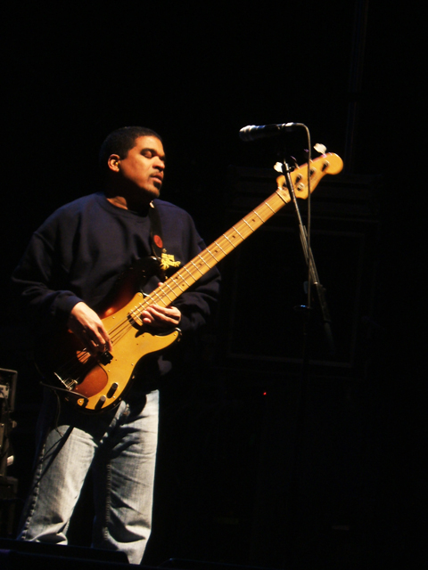 Mountain Jam 2009 - May 31, 2009 - Day 3 - The Allman Brothers Band member Oteil Burbridge is and has been a member of multiple jam bands. This is an attempt to add to a project on the en.wikipedia focusing on the Allman Brothers Band, it's bandmates and offshoots.